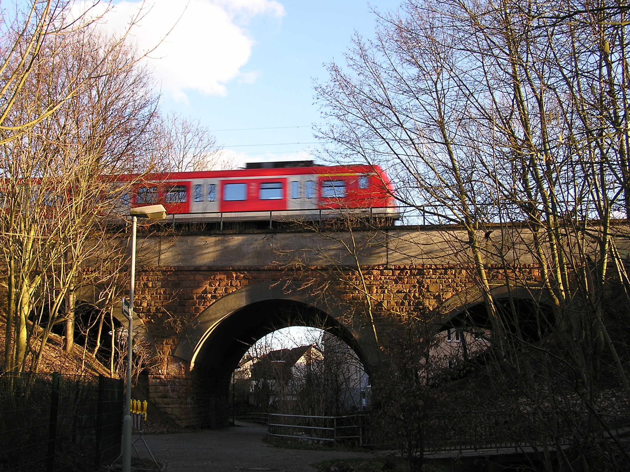 An EMU 423 cruises the viaduct of the S5 over the Kirdorfer Bach in Bad Homburg